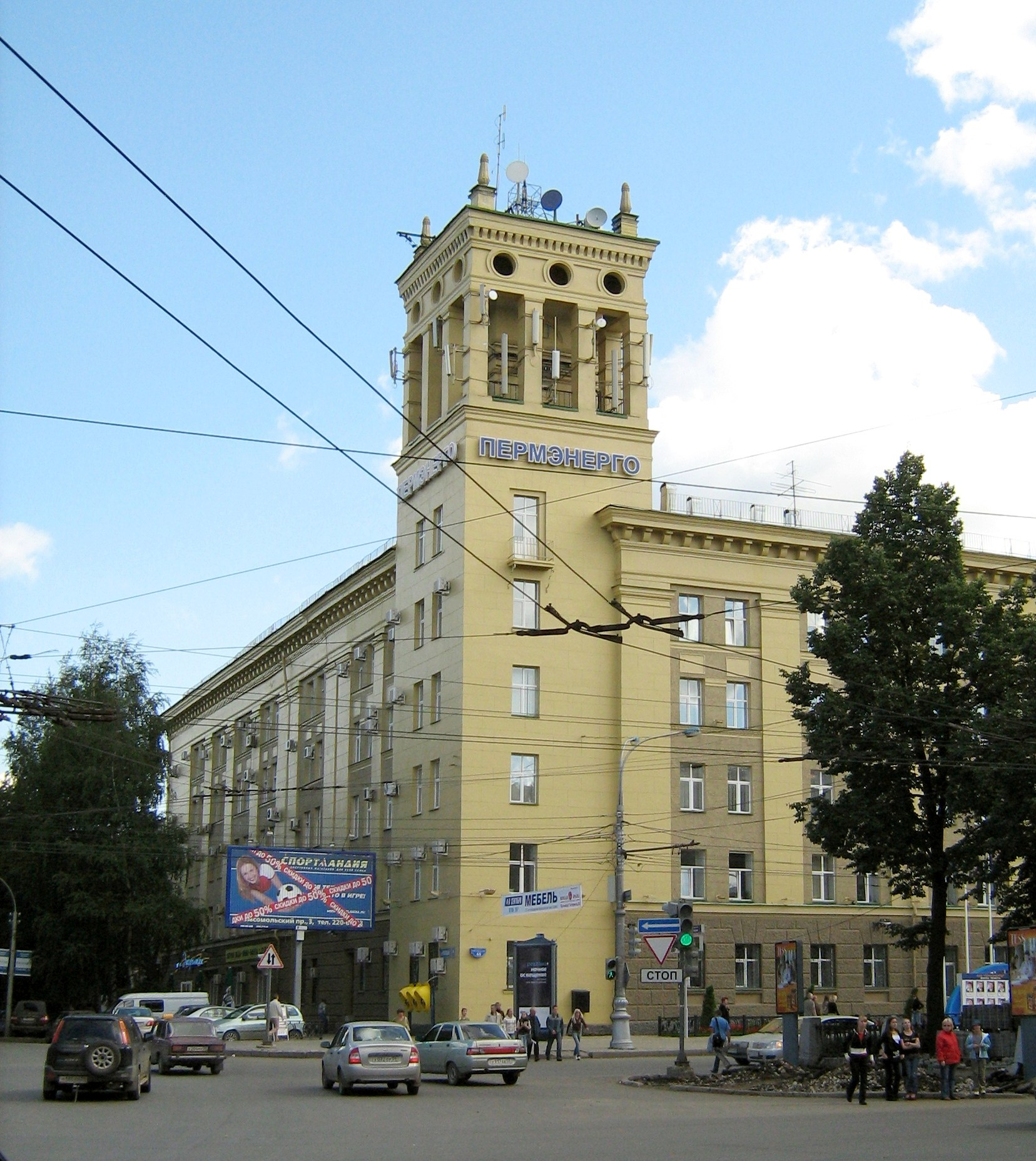 TGC-9 Headquarters, Perm.